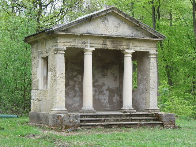 Bramham Park Temple of Lead Lads (properly Leod Lud)